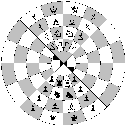 Depicts the starting position of the pieces for the historical variant of circular chess known as "al-husûn" or "citadel chess".